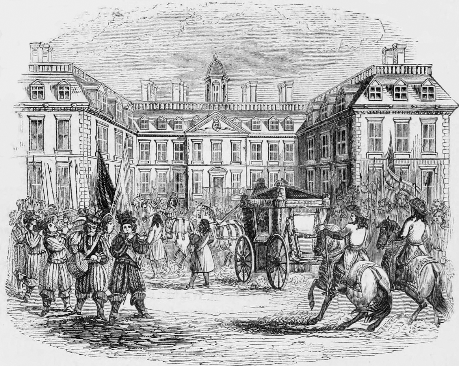 The Savoy Palace, in; 1661. (From Visschers London.) 184 Note: This is cropped version of File:Old England - a pictorial museum of regal, ecclesiastical, baronial, municipal, and popular antiquities (1845) (14587630668).jpg. See info this file. The picture have been a little cleaned up to remove the yellow tone.